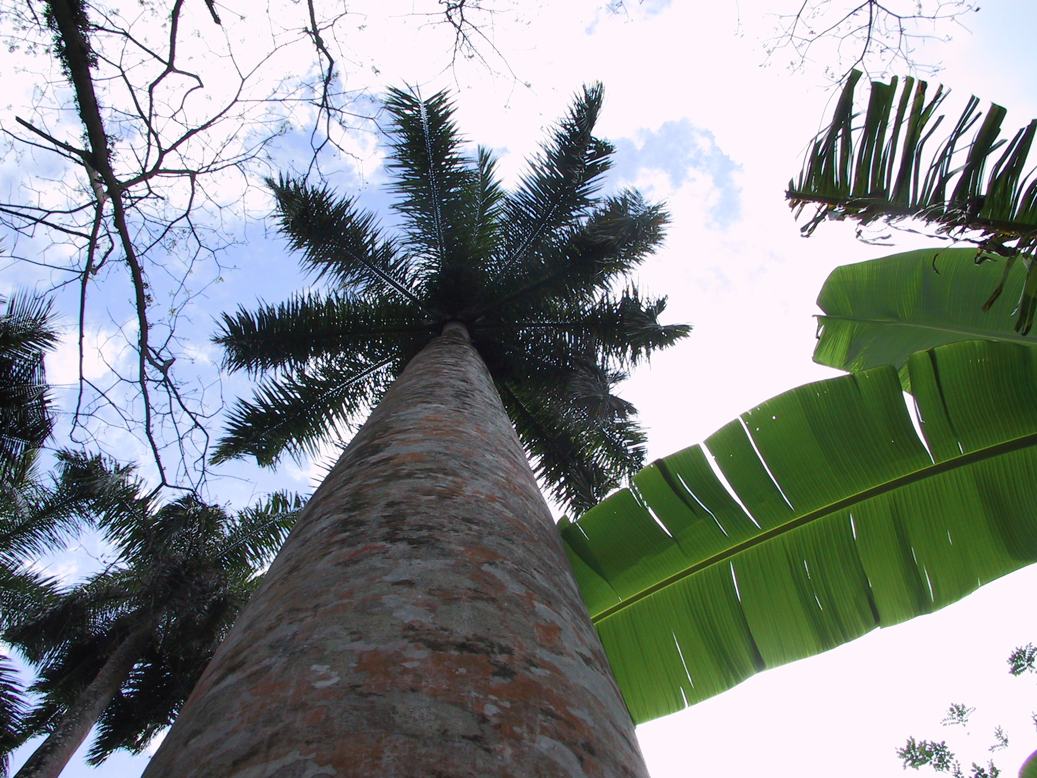 Description: Roystonea regia, Cuba (Baracoa) Source: self made Date: 2001-26-02 Author = --Ruestz 13:18, 6 April 2006 (UTC) a fallen leaf of Roystonea regia, Cuba (Baracoa)